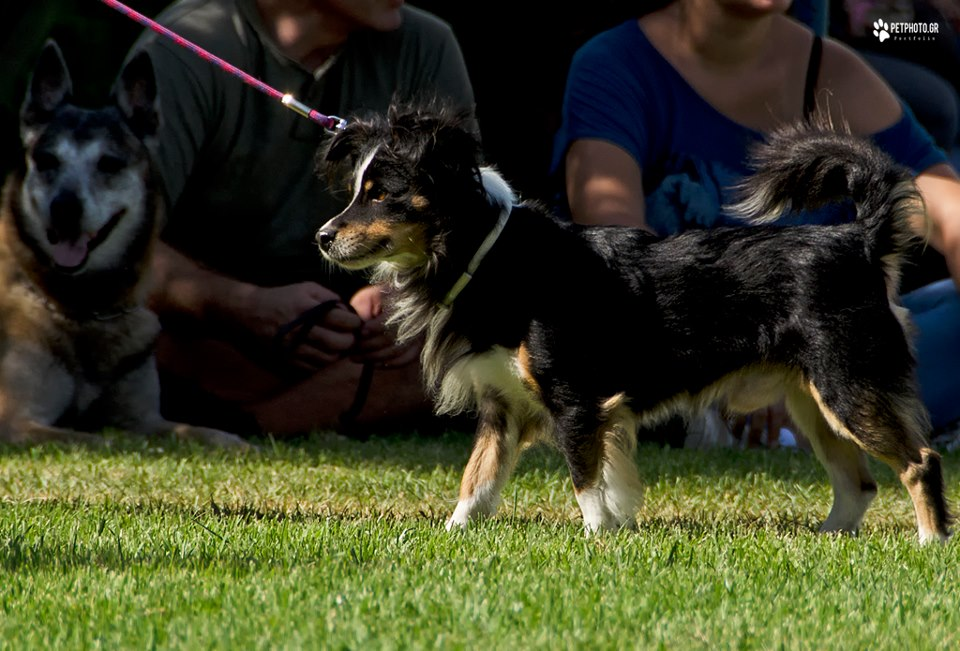 kokoni tricolor male